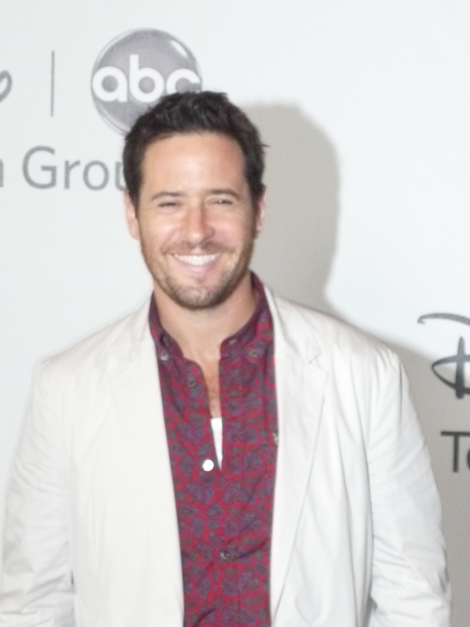 TCA 2010